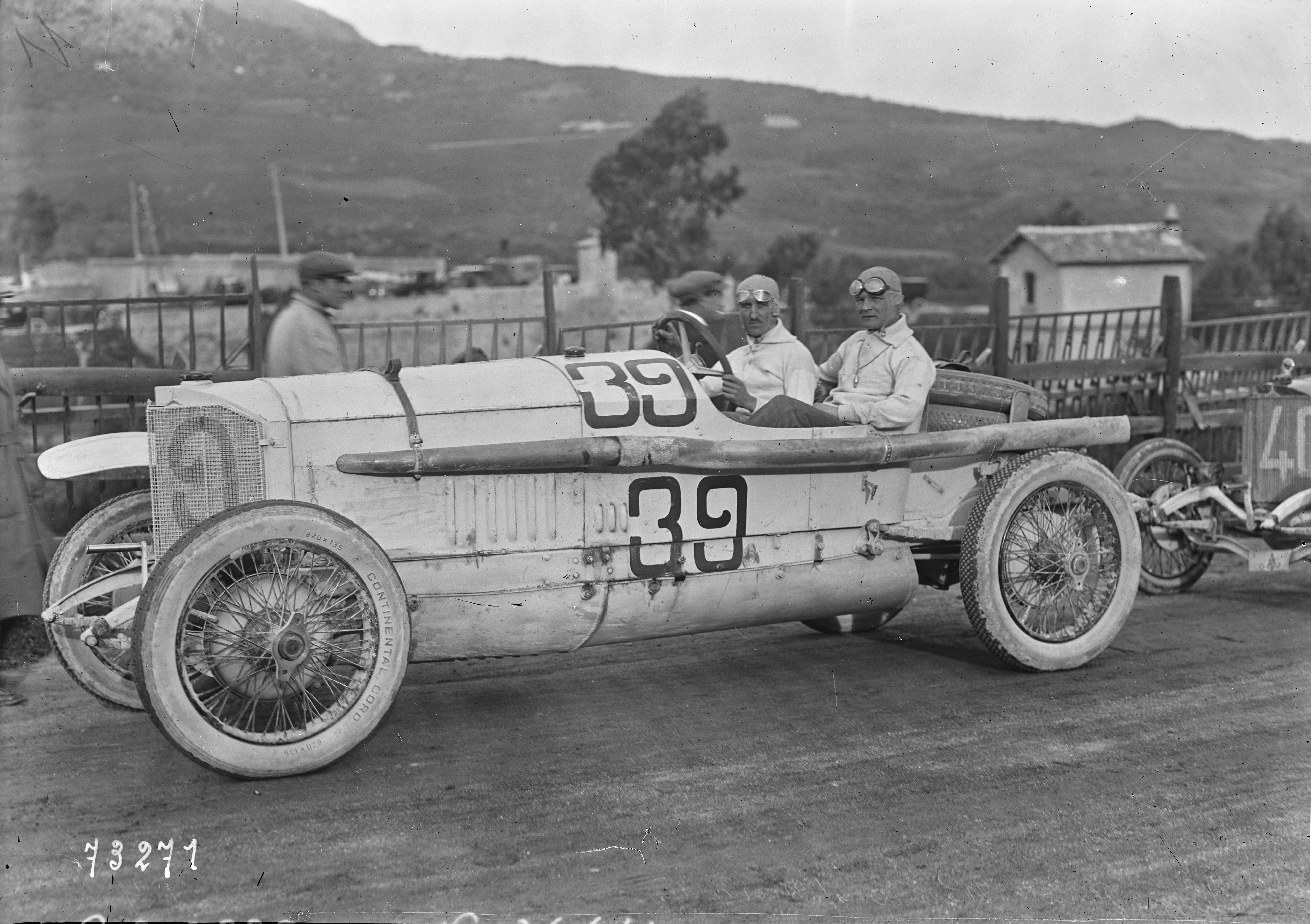 Christian Werner in his Mercedes at the 1922 Targa Florio.